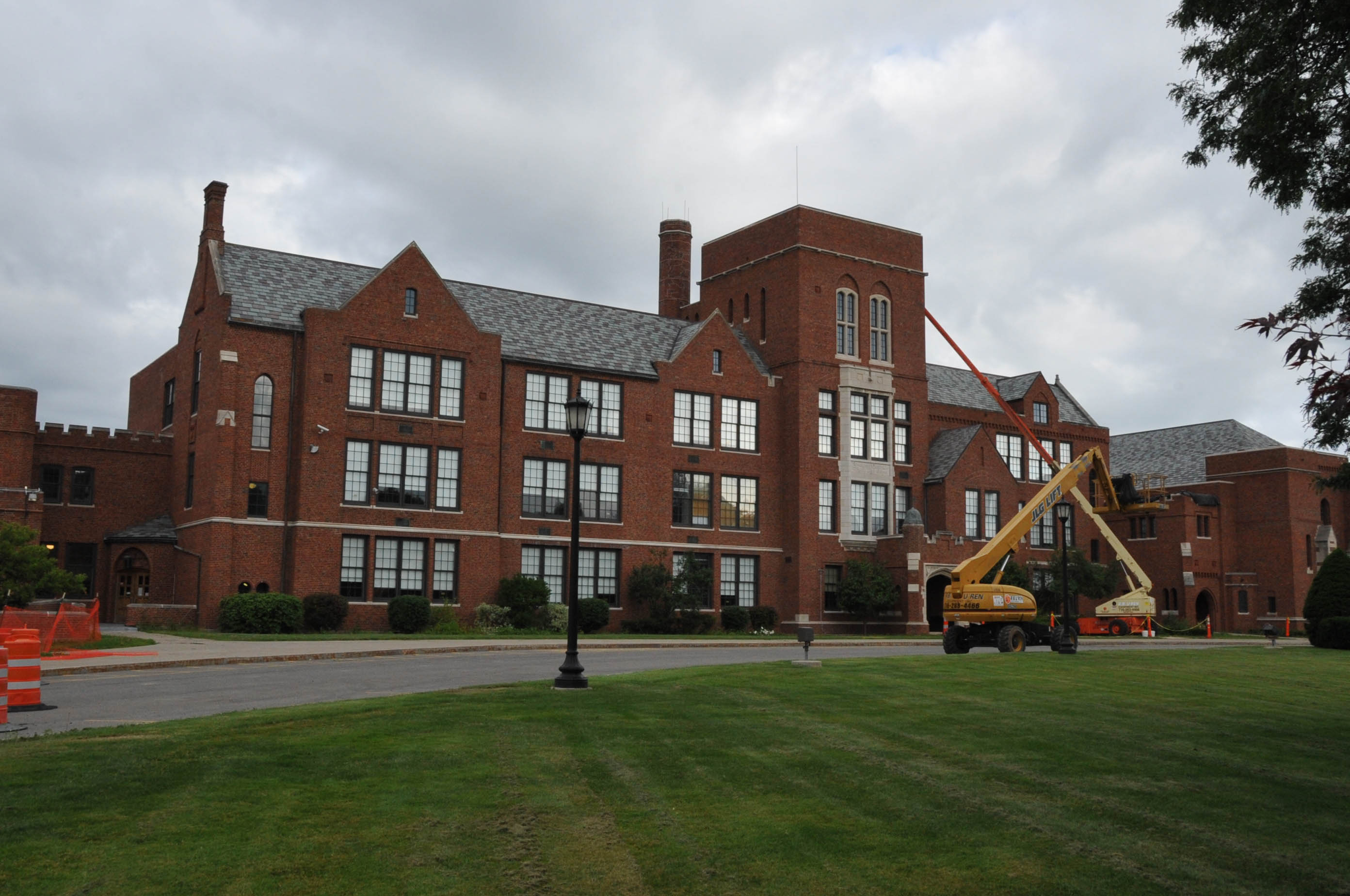 Built in 1934 in English Tudor Revival design. NOted for its interior stained-glass windows in the auditorium.